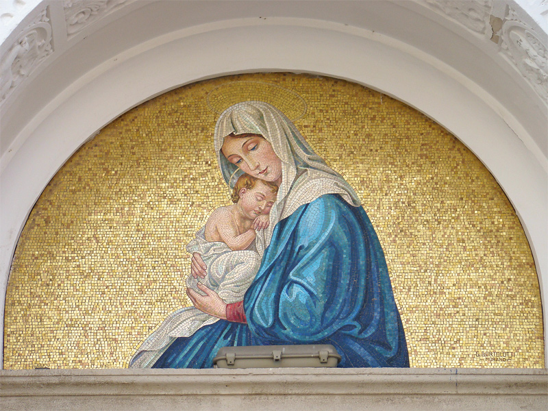 Sanctuary of Maria SS. Mediatrice, Troia, Apulia, Italy. Mosaics over the main entrance.